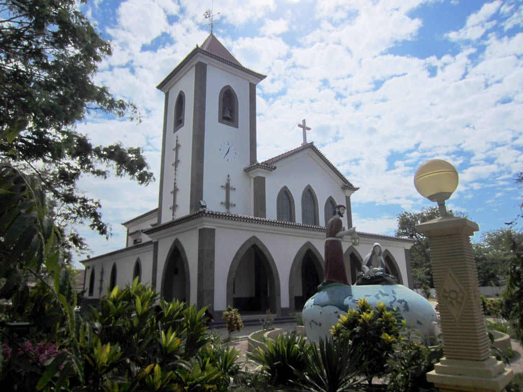 Motael Church faces the Main Wharf in Dili